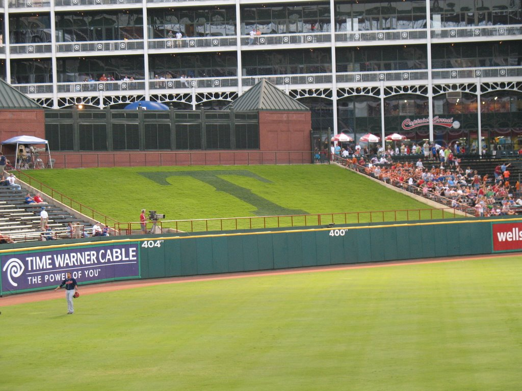 This is a picture I took myself at Ameriquest Field on September 22, 2006. The stadium is now known as Rangers Ballpark in Arlington. 15:46, 29 June 2007 . . Dopefish . . 1,024×768 (168 KB)